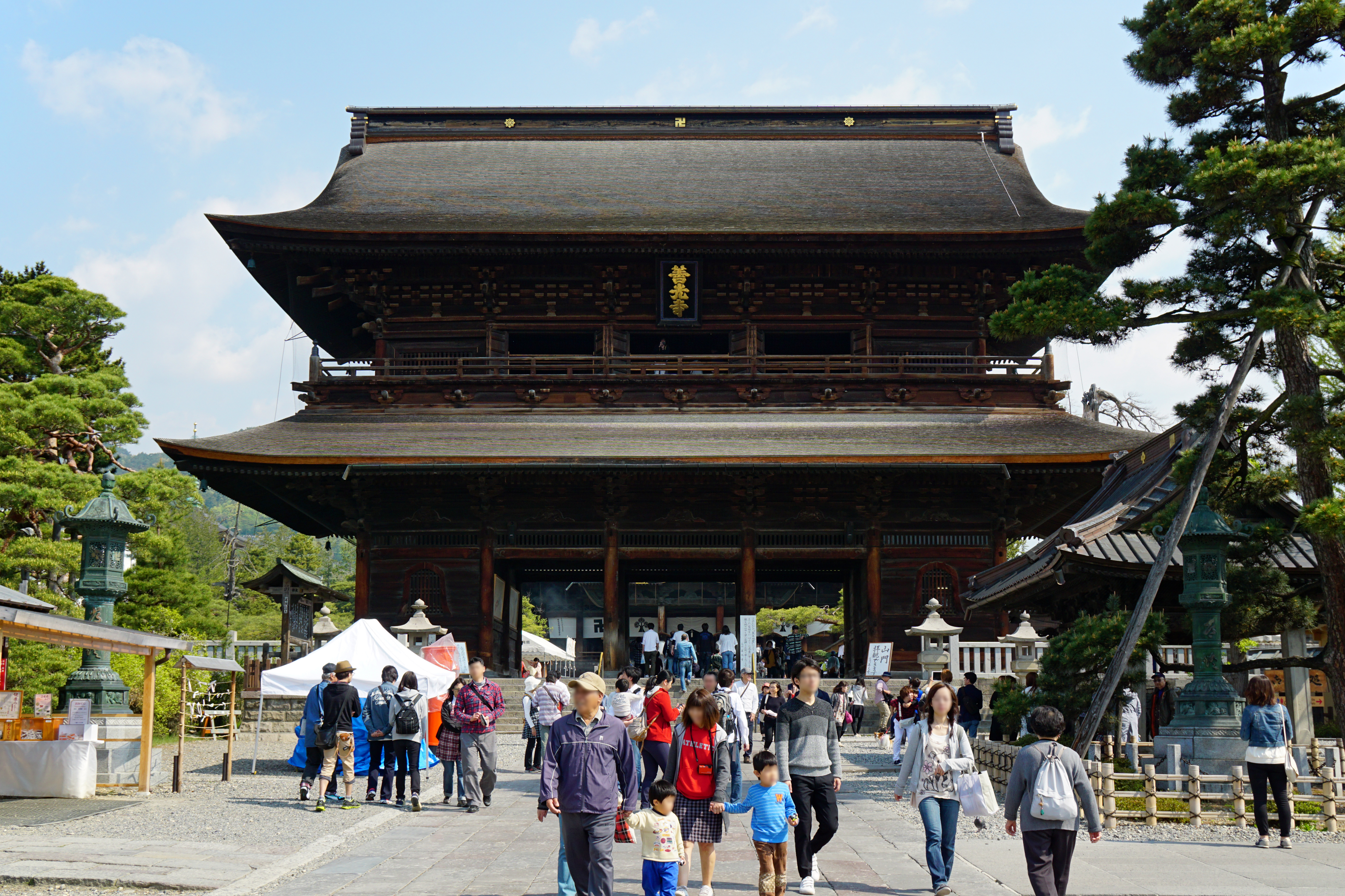 Zenkō-ji in Nagano, Nagano prefecture, Japan.